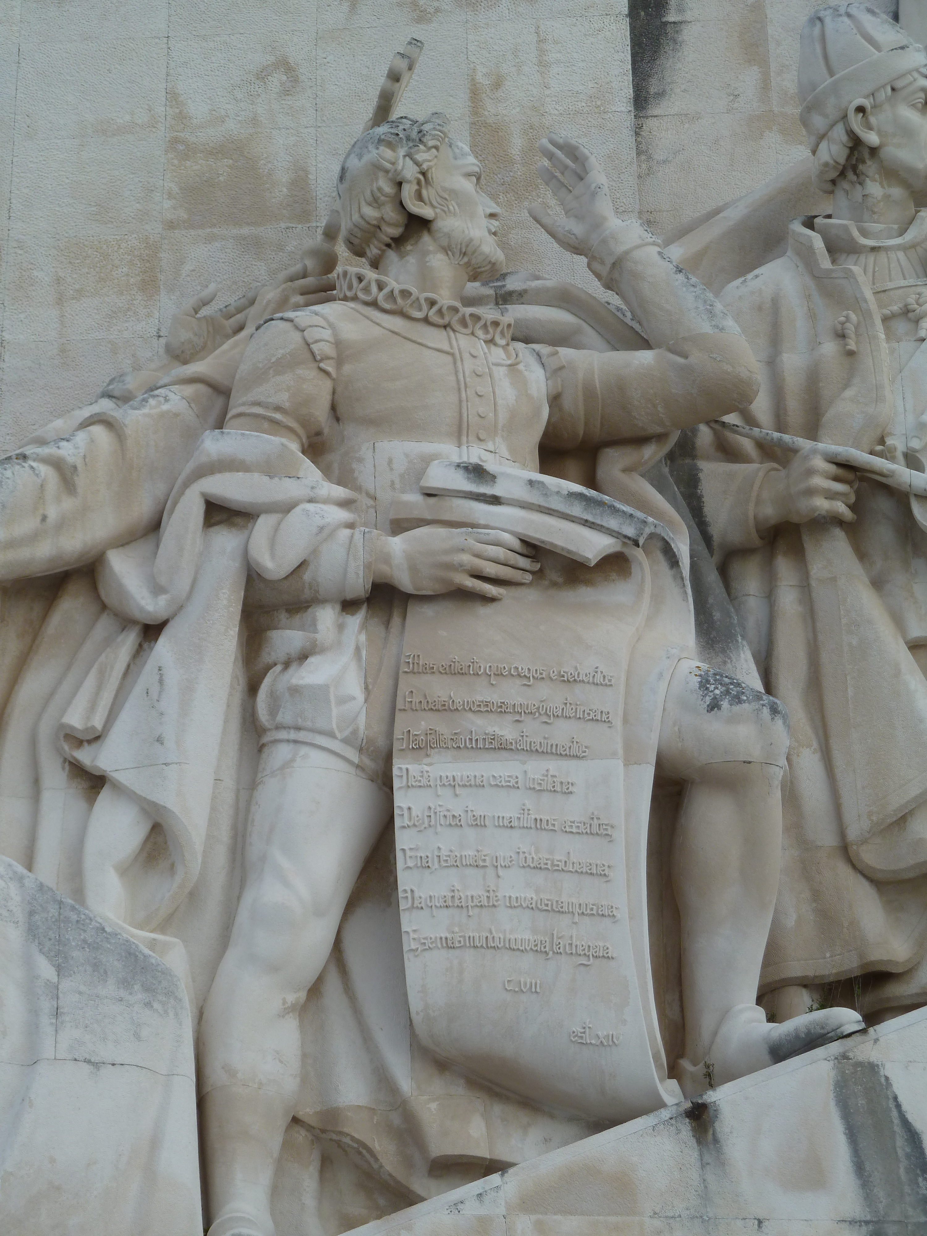 Monument to the Age of Discovery - Padrão dos Descobrimentos in Belem, Lisbon